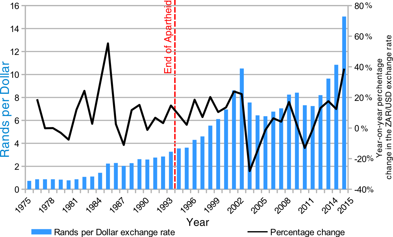 Value of the South African rand to the United States dollar from 1975 to 2015 by the blue columns. The percentage rate of change year-on-year is shown by the black line.